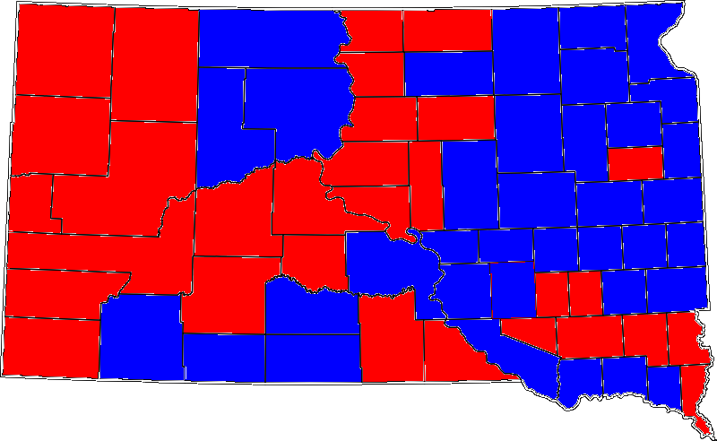 2002 South Dakota Senate election results by county.